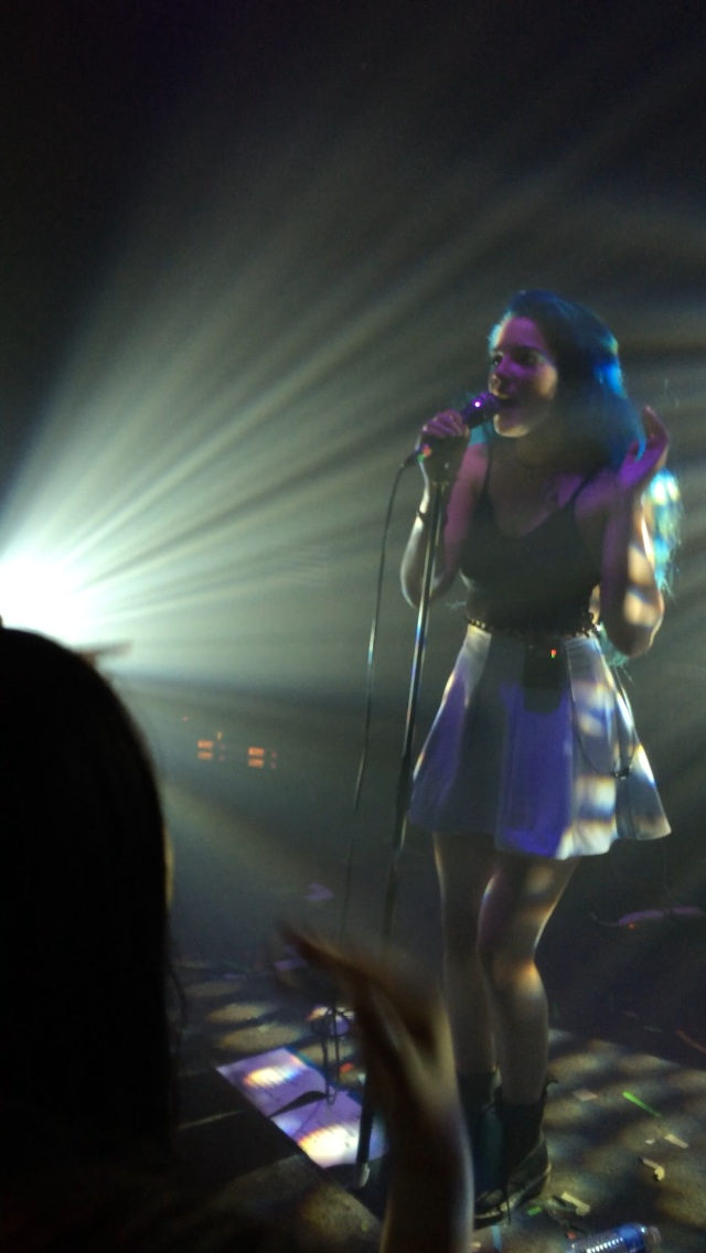 Halsey performing live in Dallas, on 3/17/15.